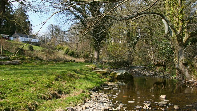 Afon Roe. This photograph of the Afon Roe was taken from a small area by the side of the river that is fenced off to prevent access by livestock and has benches for the walker to sit on and enjoy the sounds of the river and the countryside. The perfect picnic place. To join the walk, click here 410284. To go to the start of the walk, click here 406819.